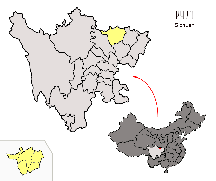 Location of Guangyuan Prefecture (yellow) within Sichuan province of China Map drawn in october 2007 using various sources, mainly : Sichuan province administrative regions GIS data: 1:1M, County level, 1990 Sichuan Counties map from